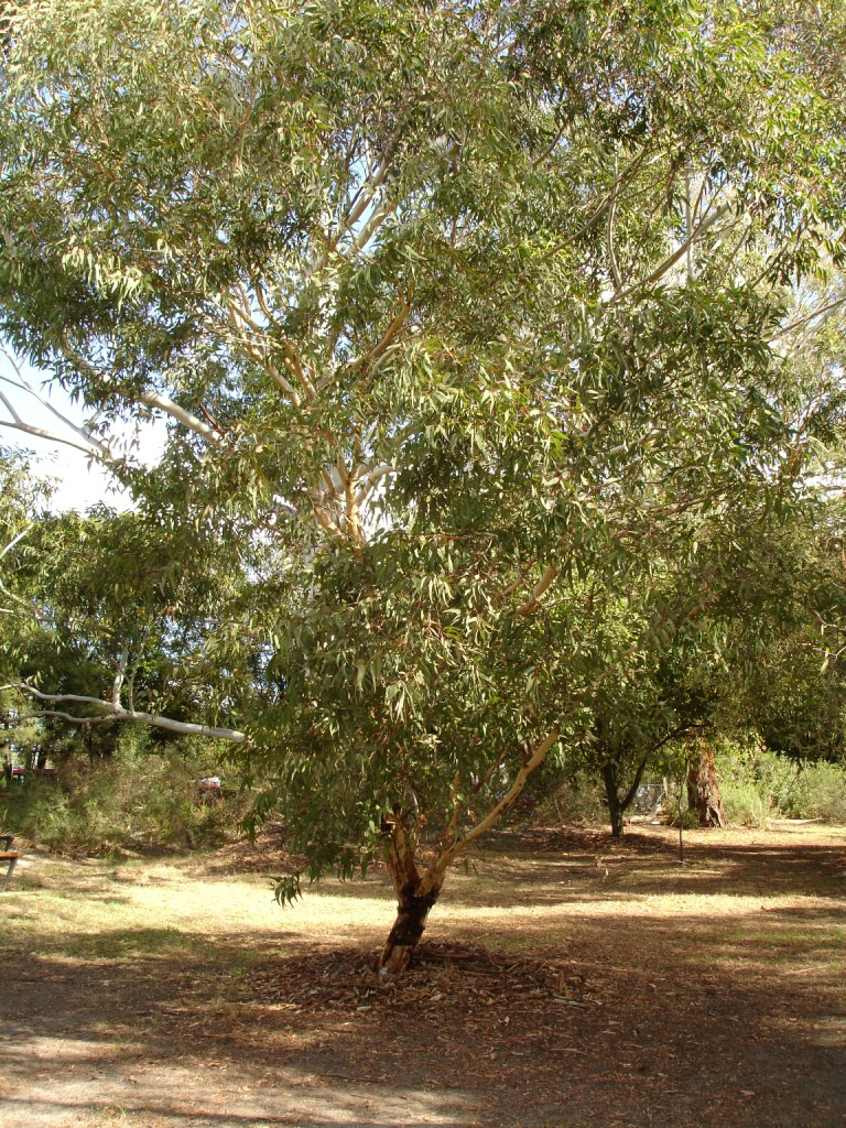 Photographed at Maranoa Gardens, Melbourne, Victoria, Australia by HelloMojo 08:26, 6 April 2007 (UTC)